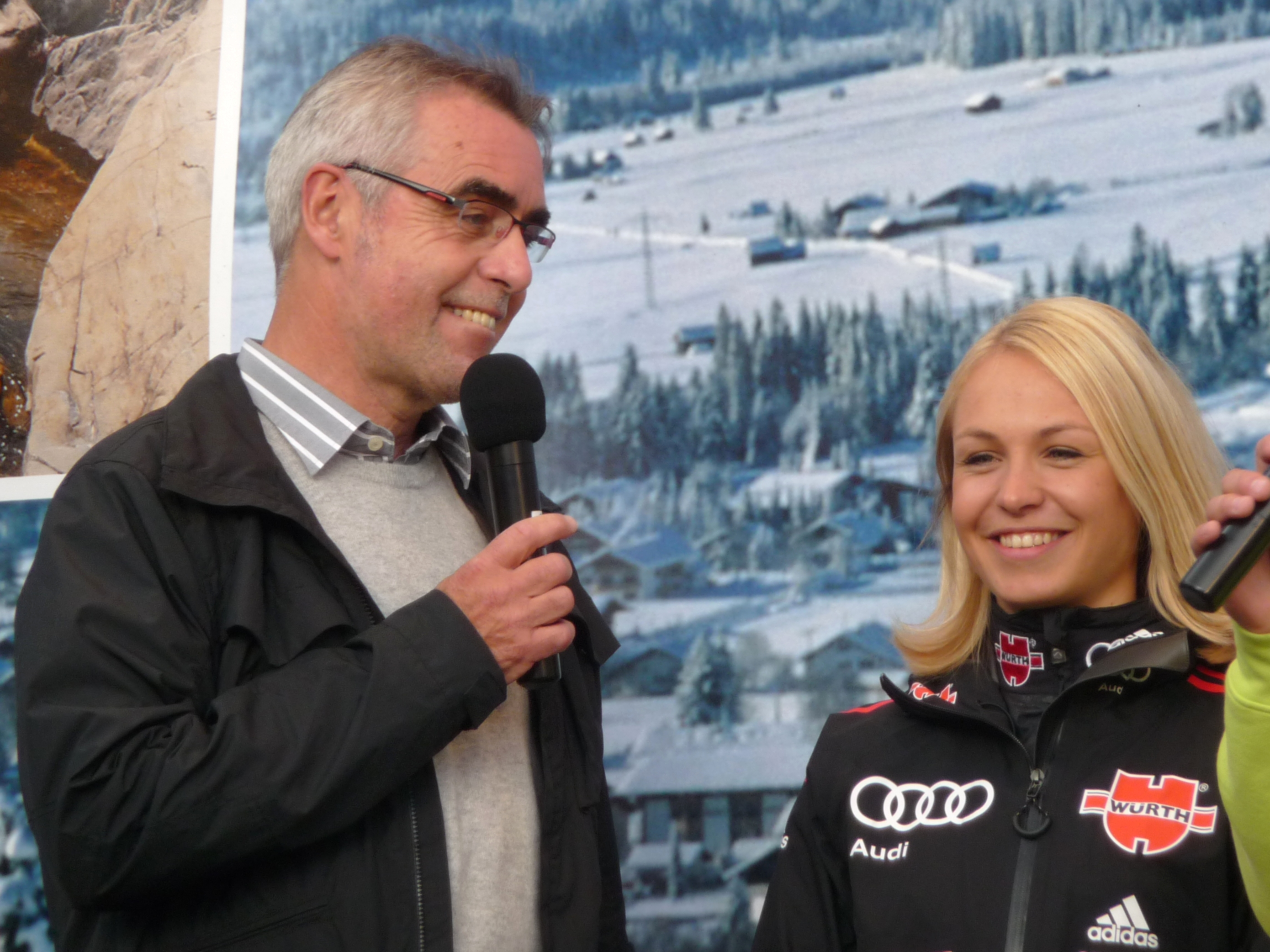 Biathlon head coach Uwe Müßiggang and Magdalena Neuner at a festivity in Wallgau, Germany, April 29, 2011